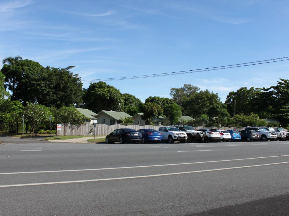 View of cottages from Grove Street (EHP, 2017)